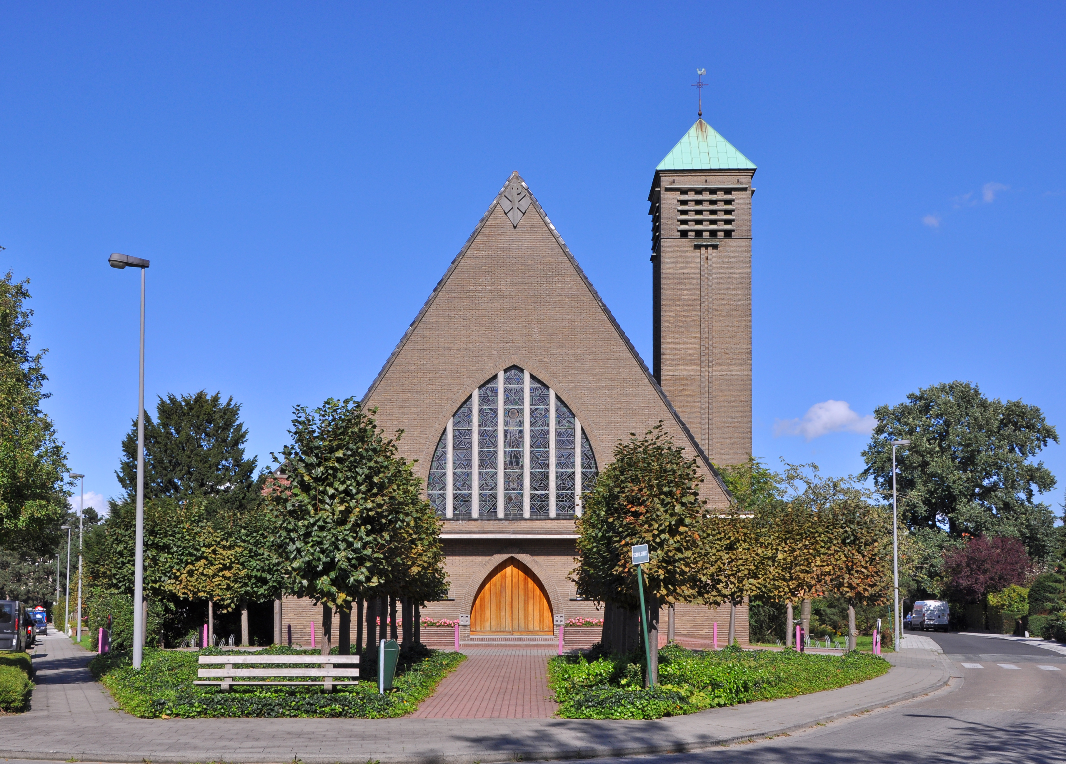 Assebroek (Bruges, Belgium): church of St Joseph and St Christopher